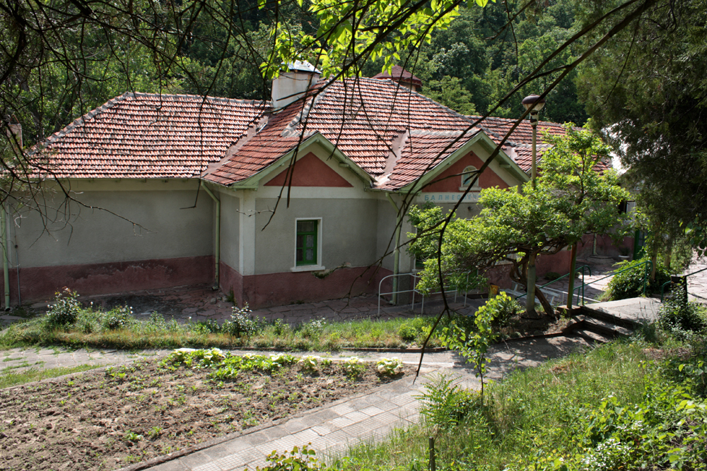 Banya Spa, Pazardzhik District Балнеолечебница Баня, Община Пазарджик